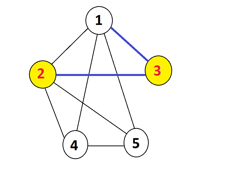 Duyet_dinh3